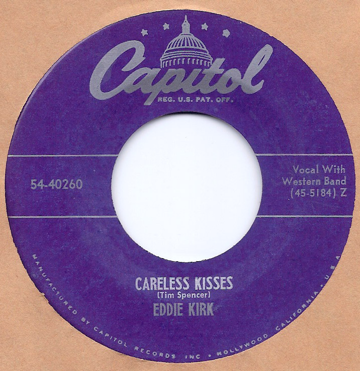 Careless Kisses by Eddie Kirk, Capitol 1949.